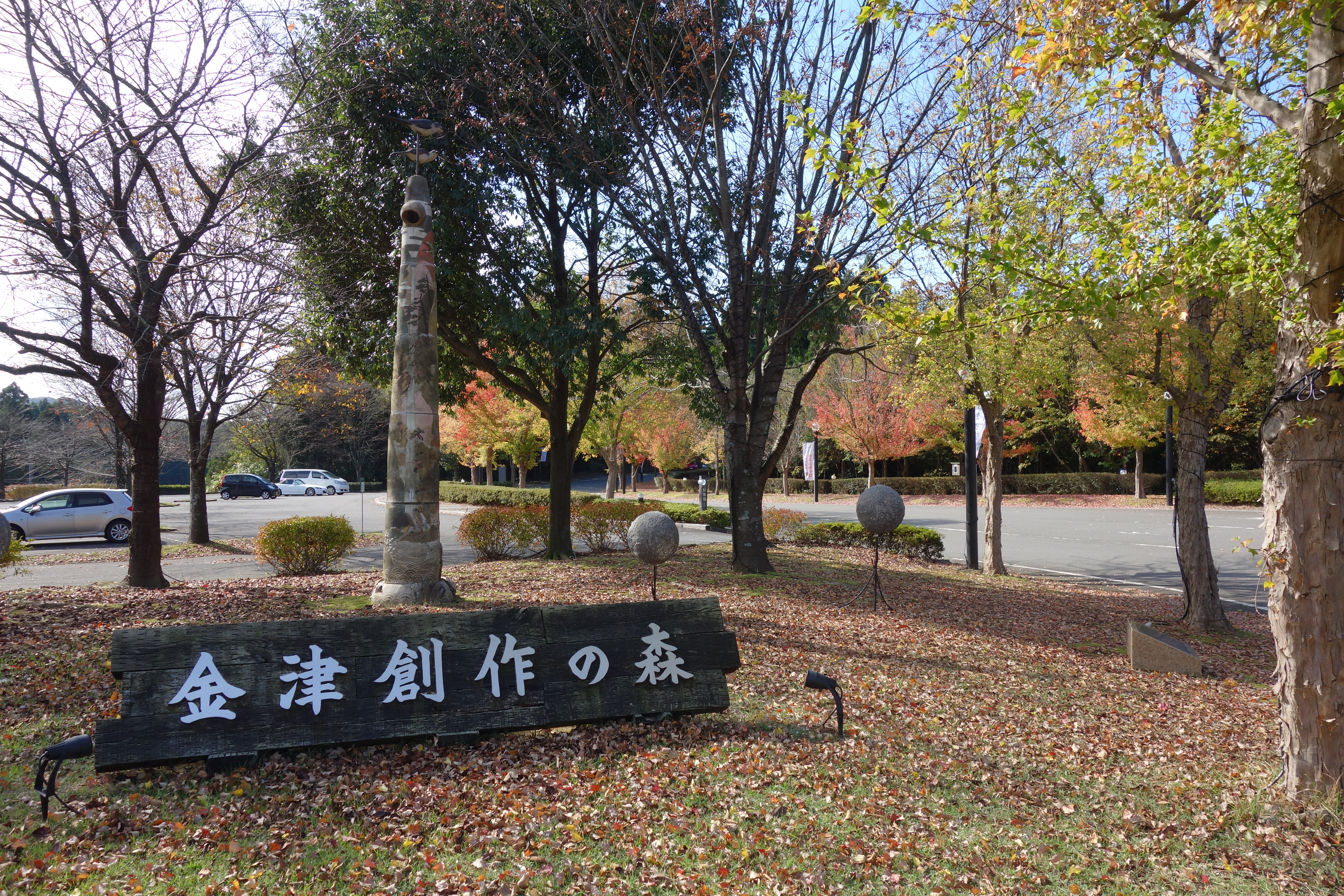 Kanaz Forest of Creation (Awara-shi, Fukui Pref., Japan)